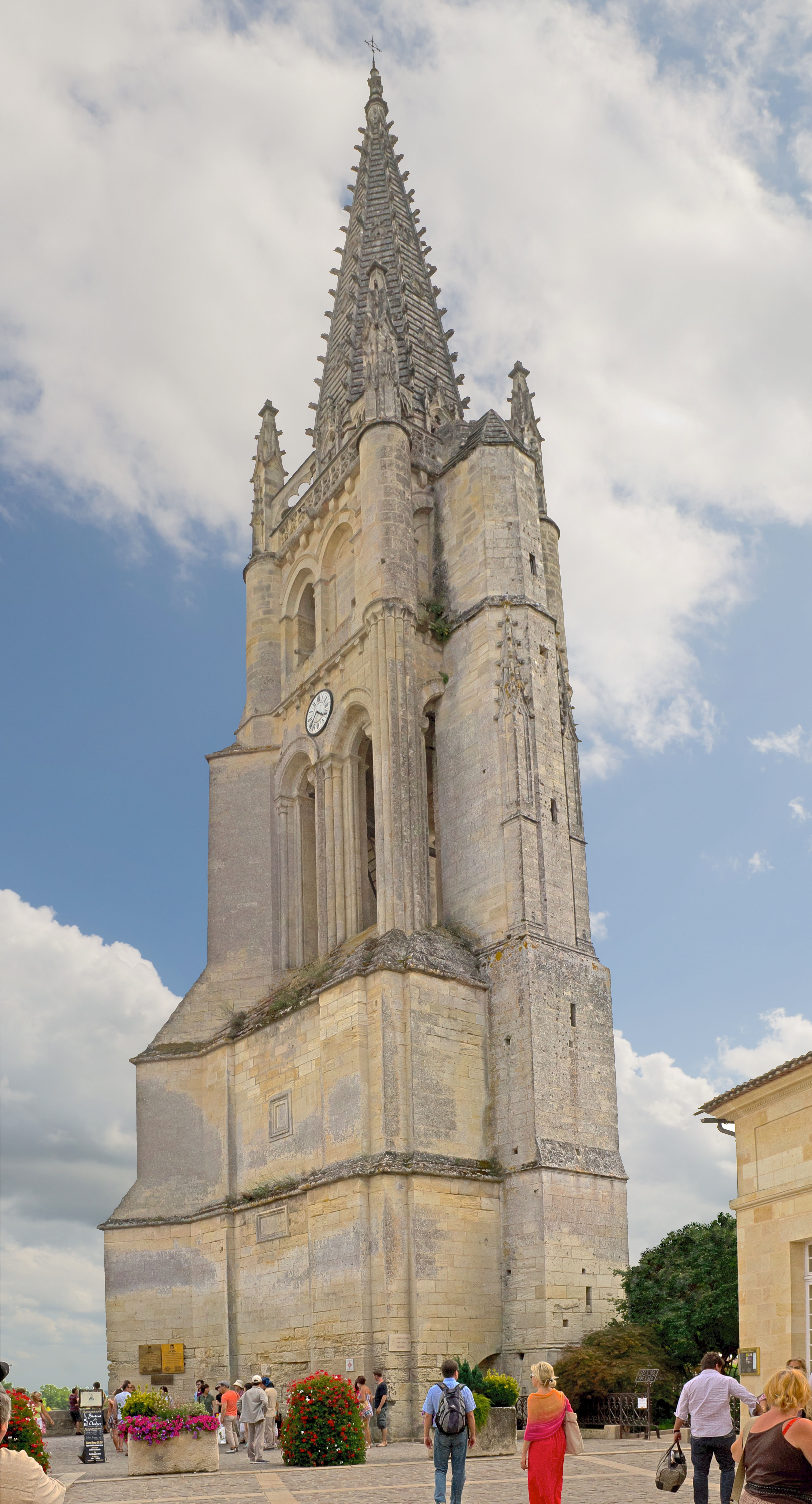 Monolithic church of Saint-Emilion of the eleventh century, known as the second monolithic church in the world, the spire of the bell tower rises to 133 meters, Saint-Émilion, Gironde, France.